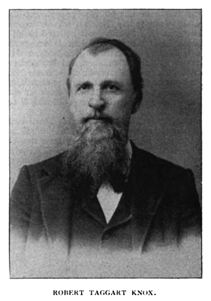 Dr. Robert Taggert Knox (1832–1898) was a prominent physician in Gonzales, Texas